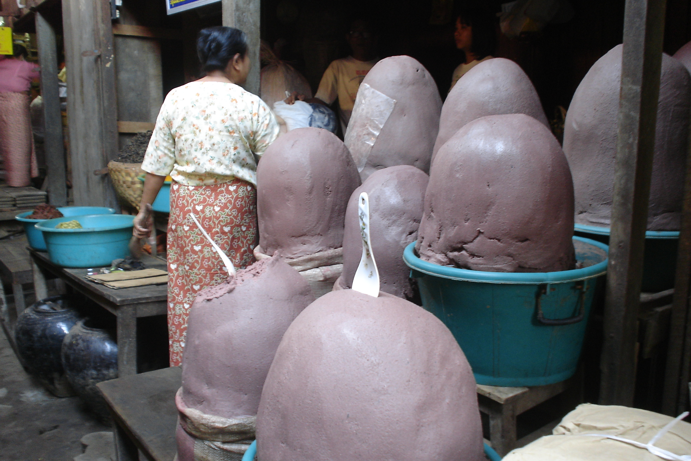 Ngapi is popular Burmese paste made of fish and/or shrimps, salted and sun dried